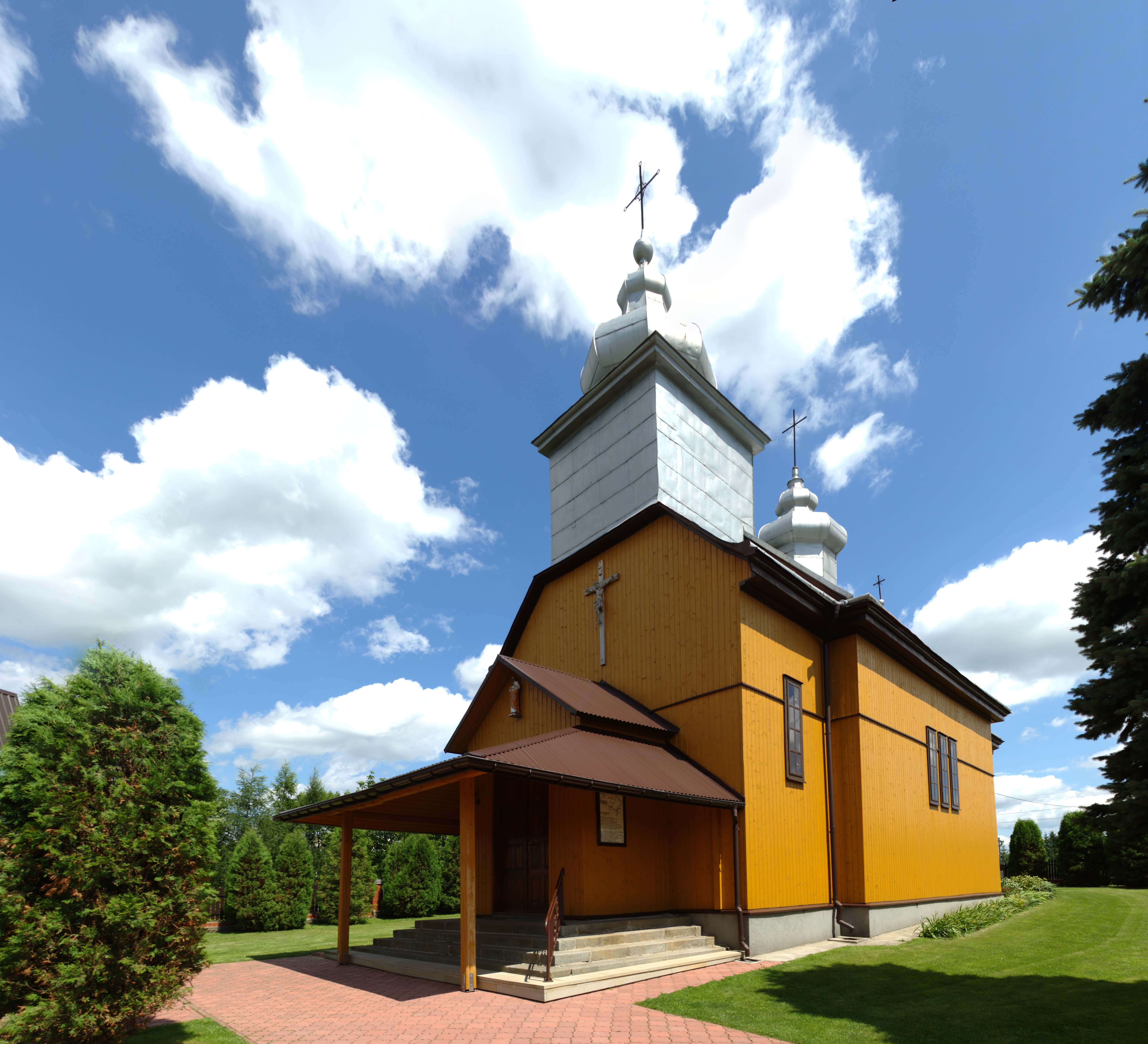 Formerly greek catholic, now roman catholic church in the village of Wróblik Szlachecki, Podkarpackie voivodeship, Poland This photo of Subcarpathian Voivodeship was taken during Wikiekspedycja 2011 set up by Wikimedia Polska Association.You can see all photographs in category Wikiekspedycja 2011. The making of this document was supported by Wikimedia Polska.